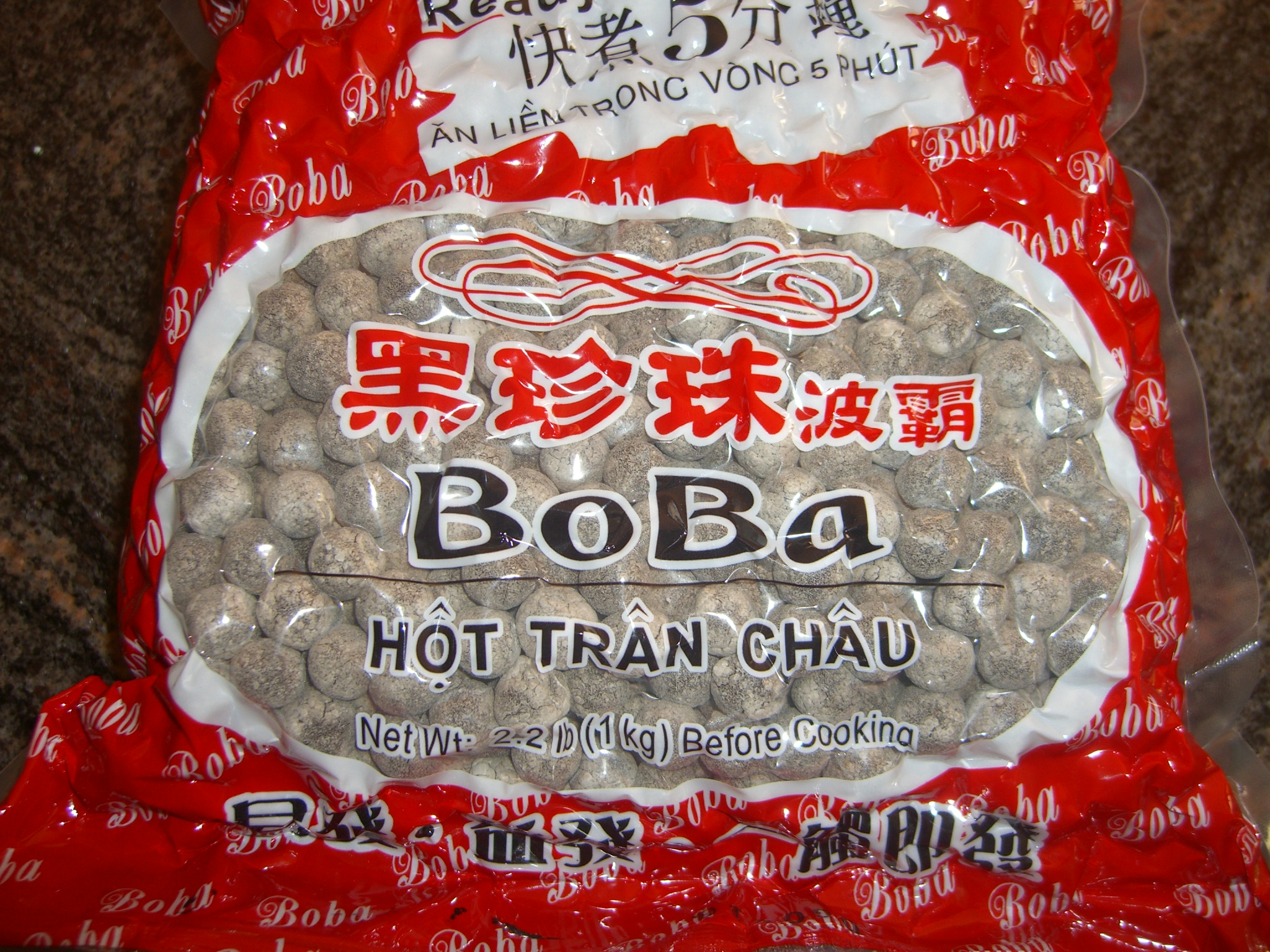 mmm....little tiny balls of tapioca. be warned: 1/3 cup of these things is 2,000 calories. no joke.